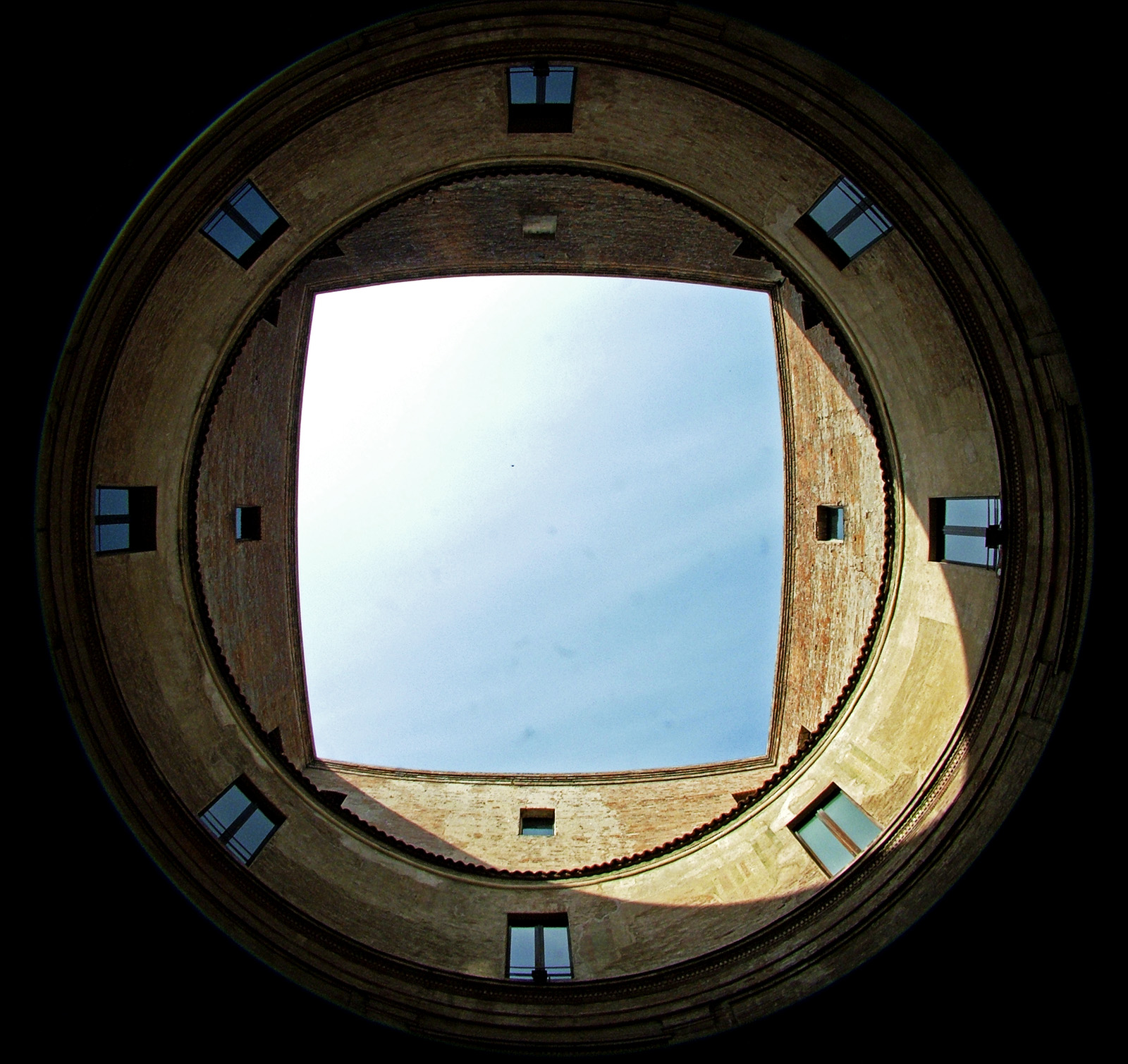 View of the inner court of the Casa Mantegna, built in 1473–1502 in Mantua for Andrea Mantegna according to his own design